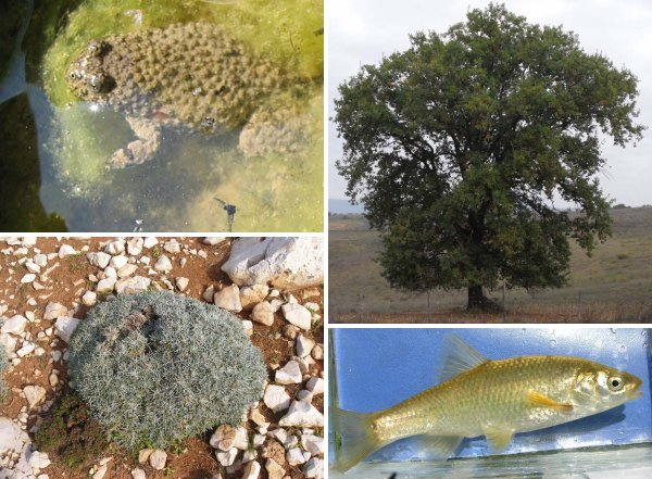 Quercus pubescens photographed in Scansano area (Tuscany, central Italy). Centaurea horrida - Isola Piana Alghero